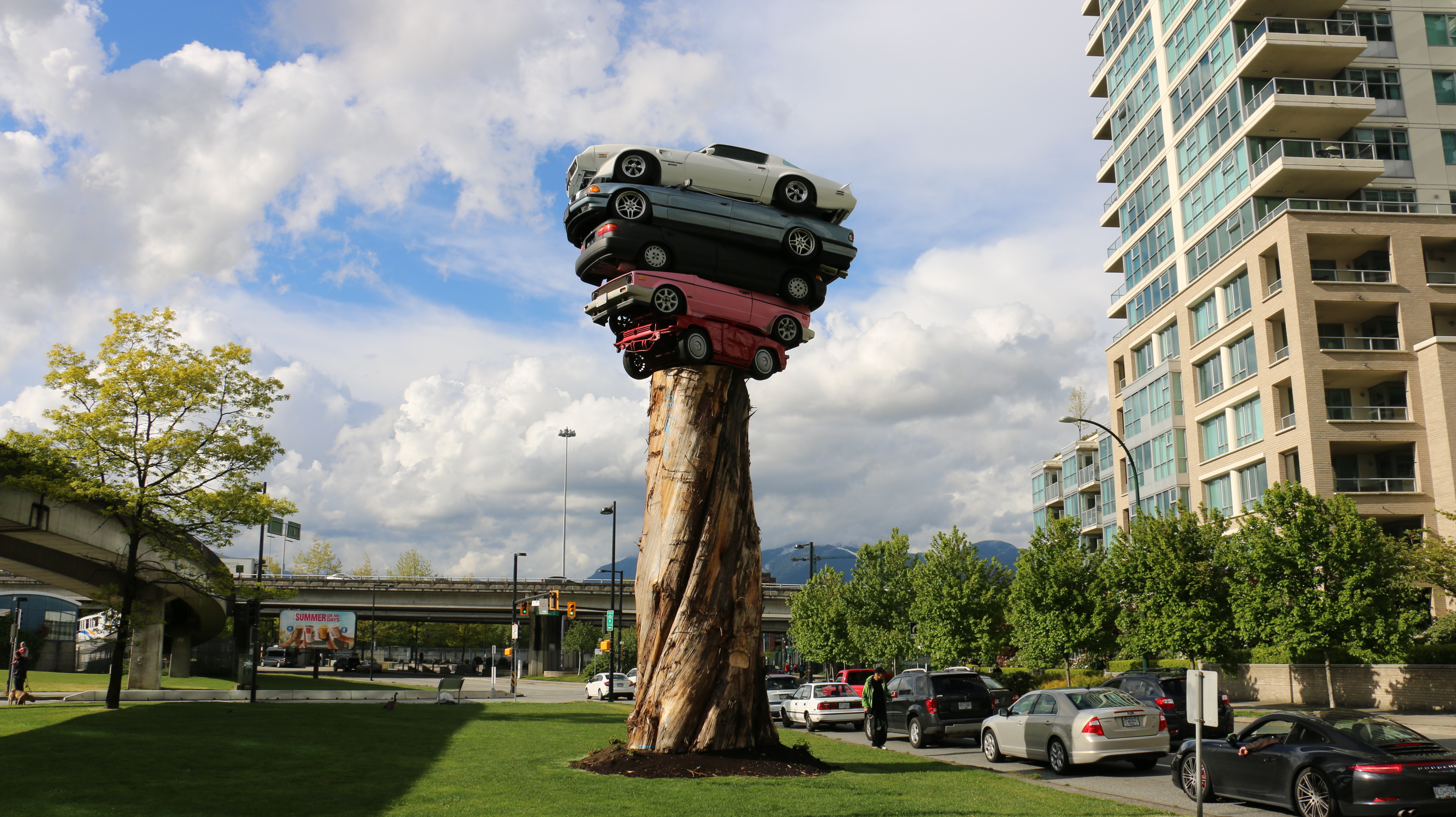 Trans Am Totem, a piece of public art in Vancouver, British Columbia, Canada. Located in the False Creek area. Part of the Vancouver Biennale, 2015 Artist: Marcus Bowcott Dimensions: 10 meters high, 11,340 kilograms Materials: 5 scrap cars and a cedar tree